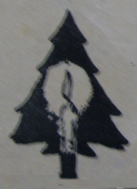 election symbol on 1955 ballot paper